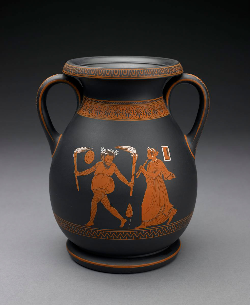 A black basalt vase from Wedgwood featuring red figures.